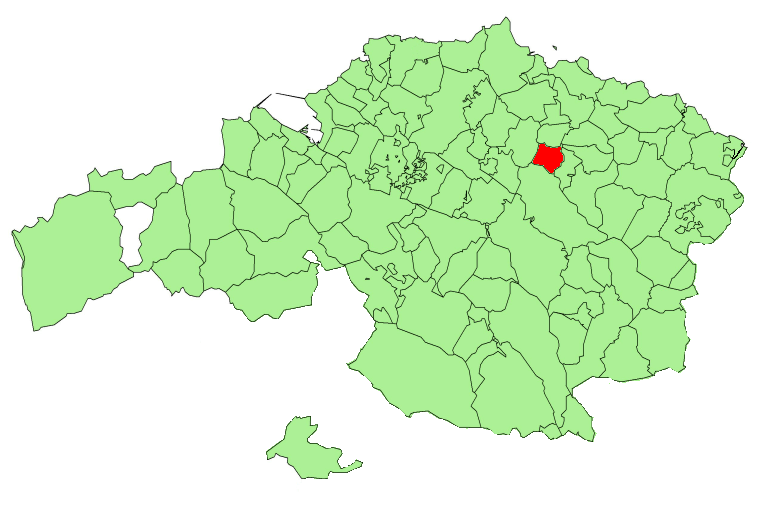 Gernika-Lumo municipality in the province of Biscay